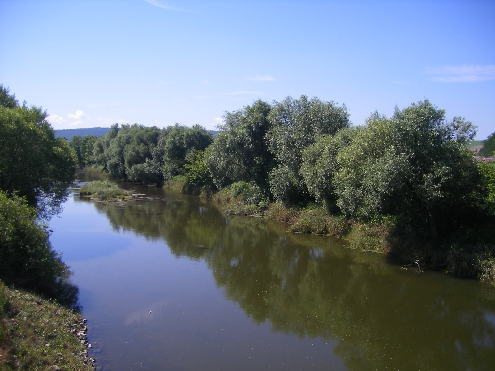 Salka/Ipolyszalka-Letkés - Ipoly/Ipeľ River